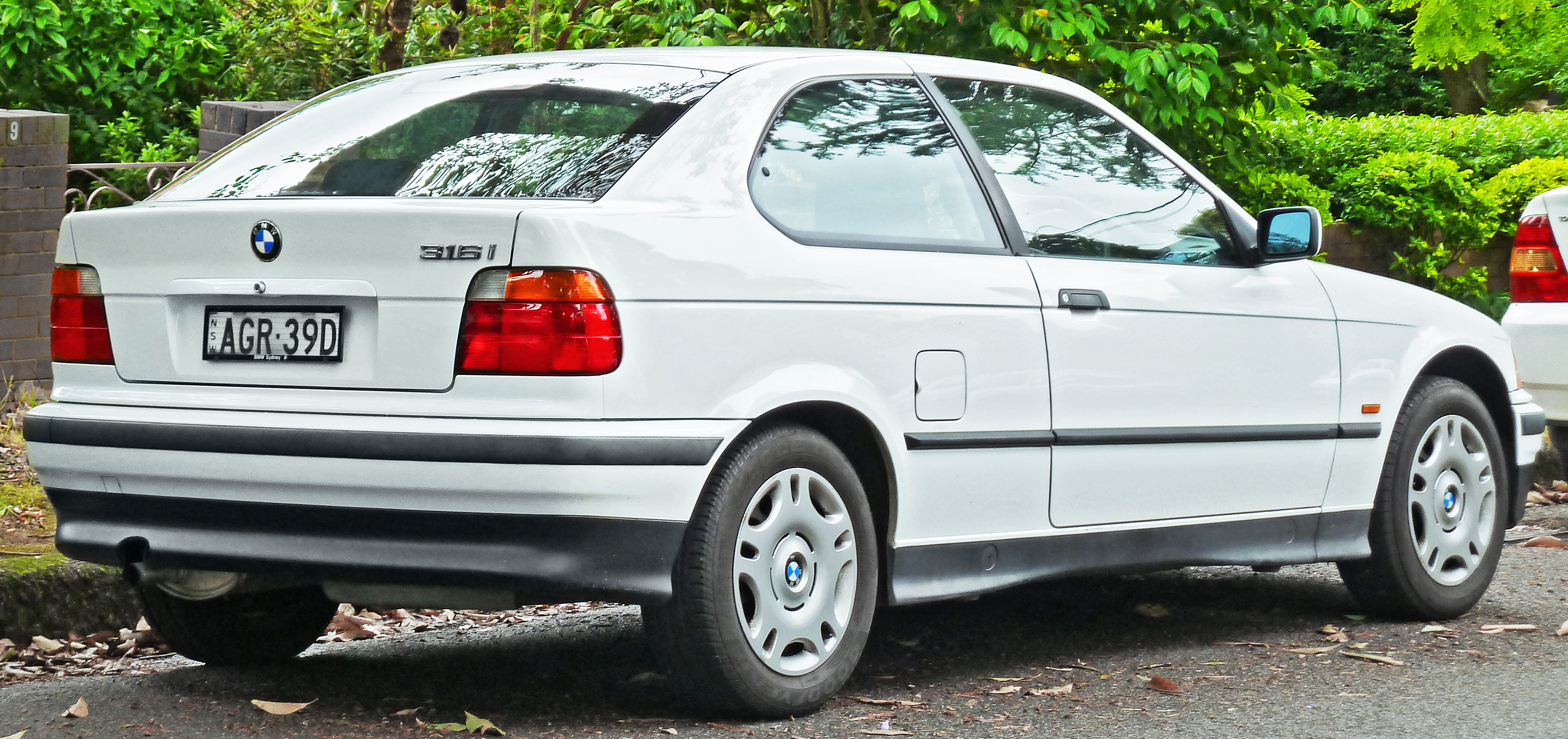 1998 BMW 316i (E36) hatchback. Photographed in Gordon, New South Wales, Australia.